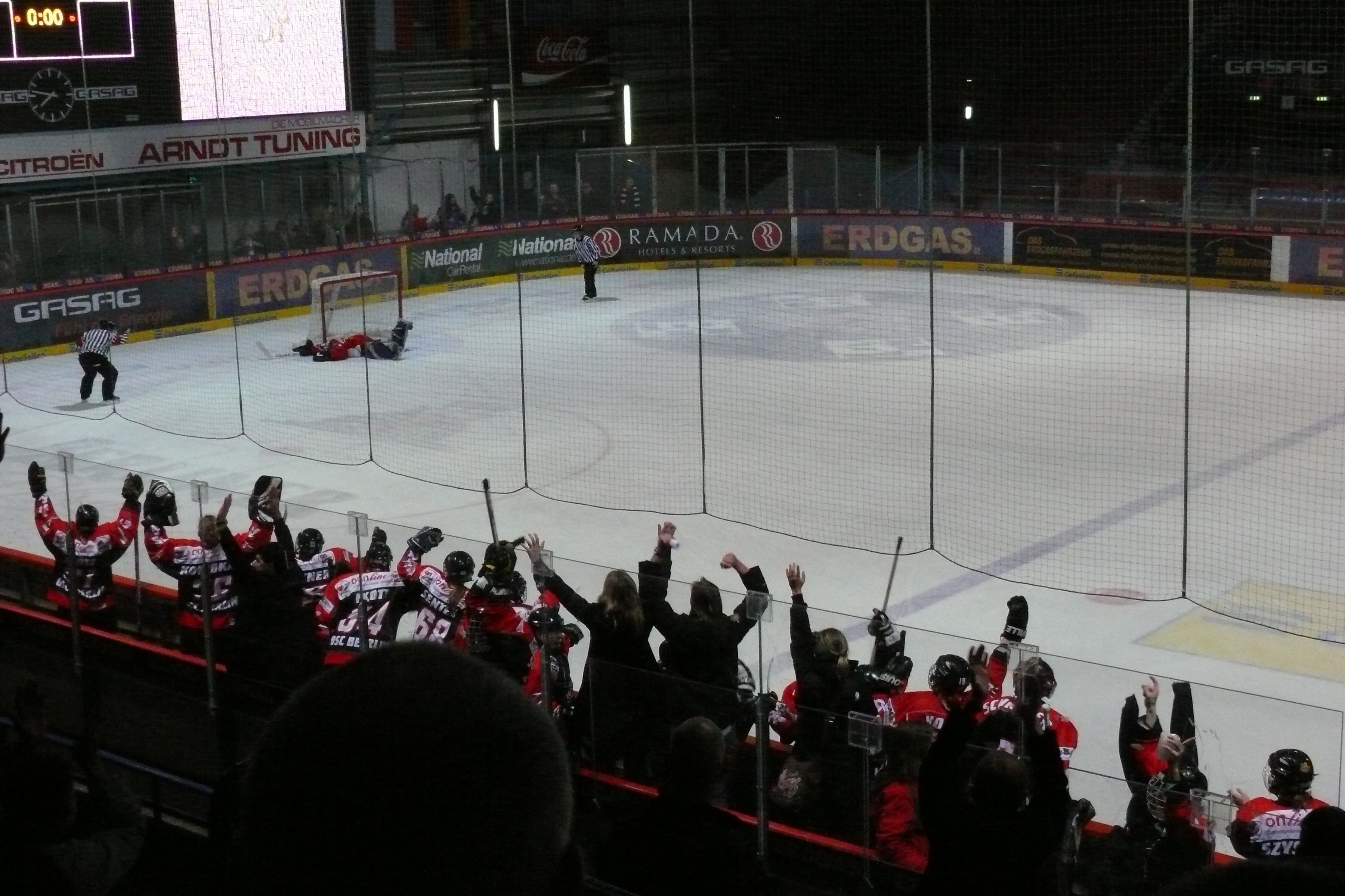 IIHF European Women Champions Cup 2008, 2nd round tournament in Berlin, last game: OSC Berlin wins in penalty shots over Slavia Prague an recieved the final-round-tournament